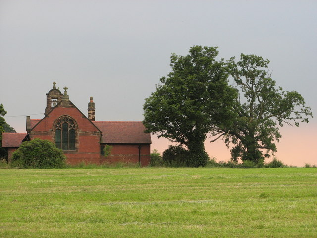 All Saints church, Balterley taken from the Old Smithy looking west